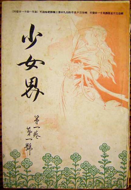 Cover of the first issue of Shōjokai